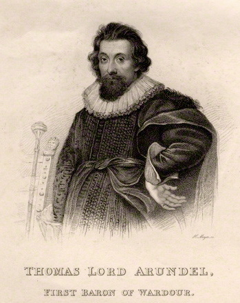 Thomas Arundell, 1st Baron Arundell of Wardour (c1560-1639)